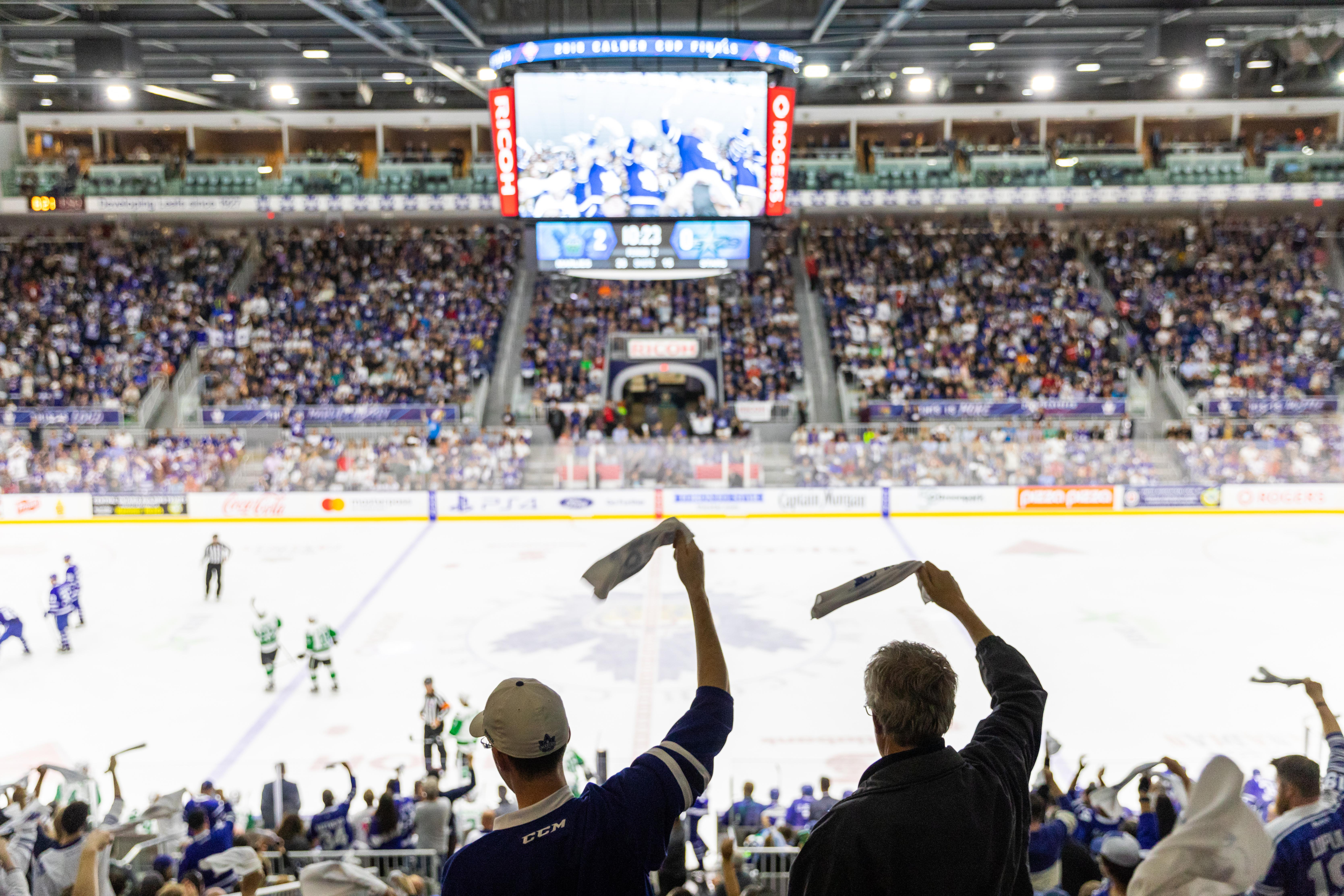 Photo: Thomas Skrlj/AHL